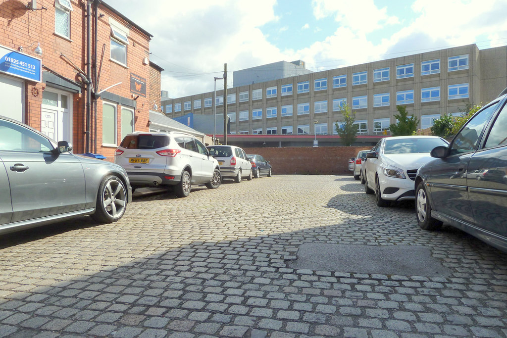 Monk Street, Warrington